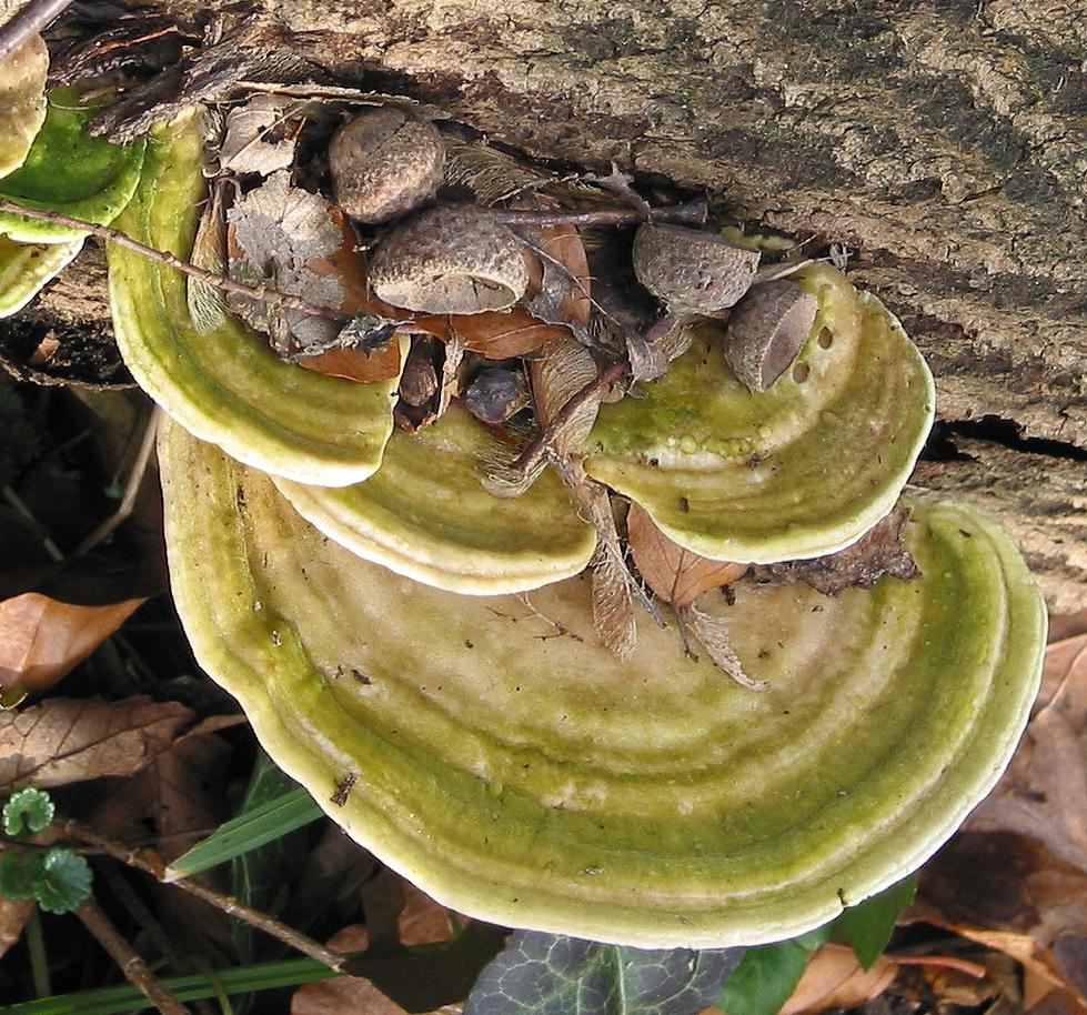 fungi